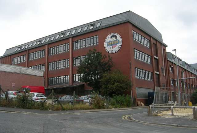 Haribo Sweets Factory - Sessions House Yard